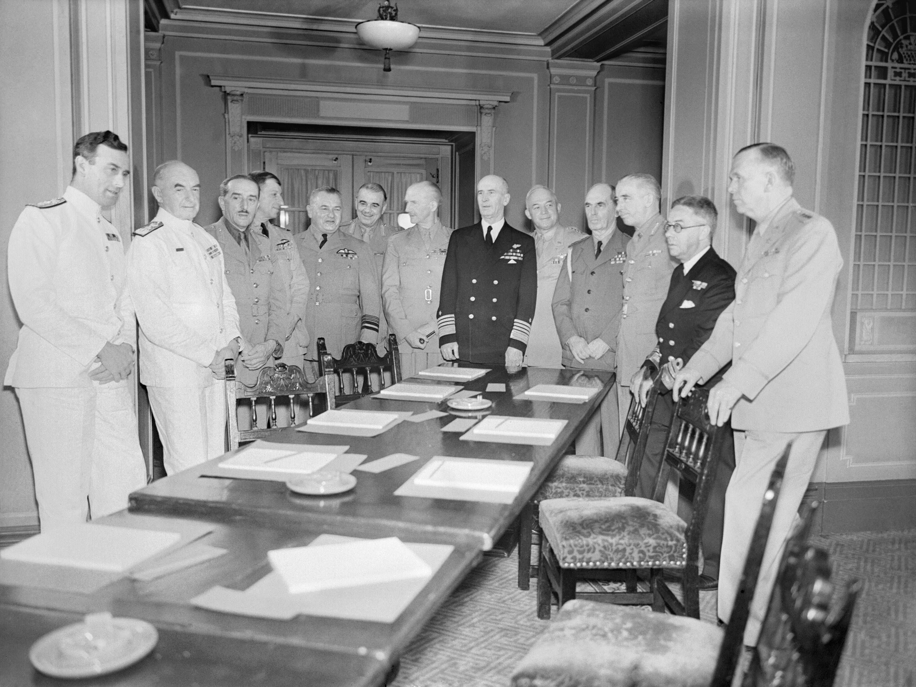 Admiral of the Fleet Earl Mountbatten of Burma Chief of Combined Operations: Mountbatten with Combined Chiefs of Staff at the Quebec Conference of 1943. Left to right (at Chateau Frontenac): Lord Louis Mountbatten, Admiral of the Fleet Sir Dudley Pound, General Sir Alan Brooke, Air Chief Marshal Sir Charles Portal, Air Marshal L S Breadner, Field Marshal Sir John Dill, Lieutenant General Sir Hastings Ismay, Admiral E J King, General H H Arnold, Admiral W D Leahy, Lieutenant General K Stuart, Vice Admiral P W Nelles and General G C Marshal.